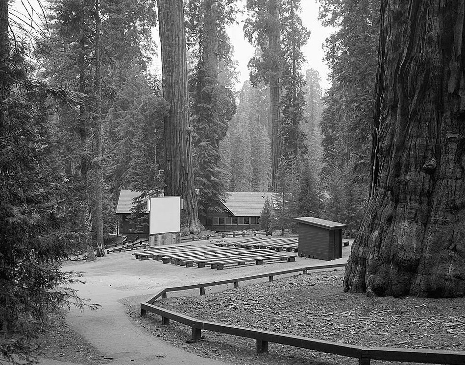 Giant Forest Ampihitheater, Sequoia National Park, California (demolished). Image from the Historic American Buildings Survey of California.